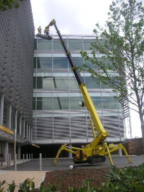 Palazzani TSJ38/C working at Chiswick, London, UK.